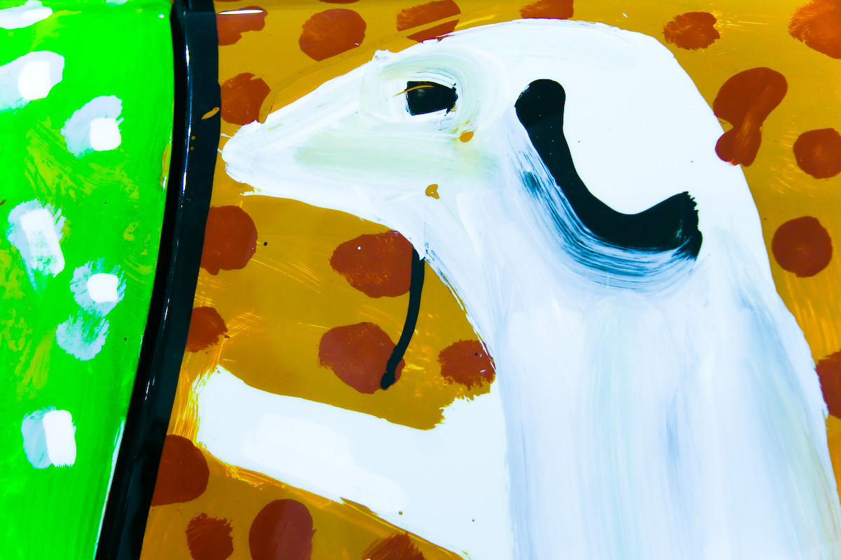 1995 BMW 850 CSi by David Hockney